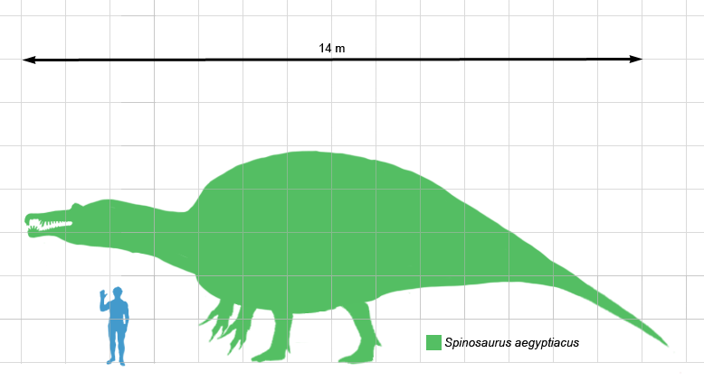 Size comparison of Spinosaurus aegyptiacus and a human. Modified from a illustrations of Spinosaurus by ArthurWeasley and Steveoc 86.